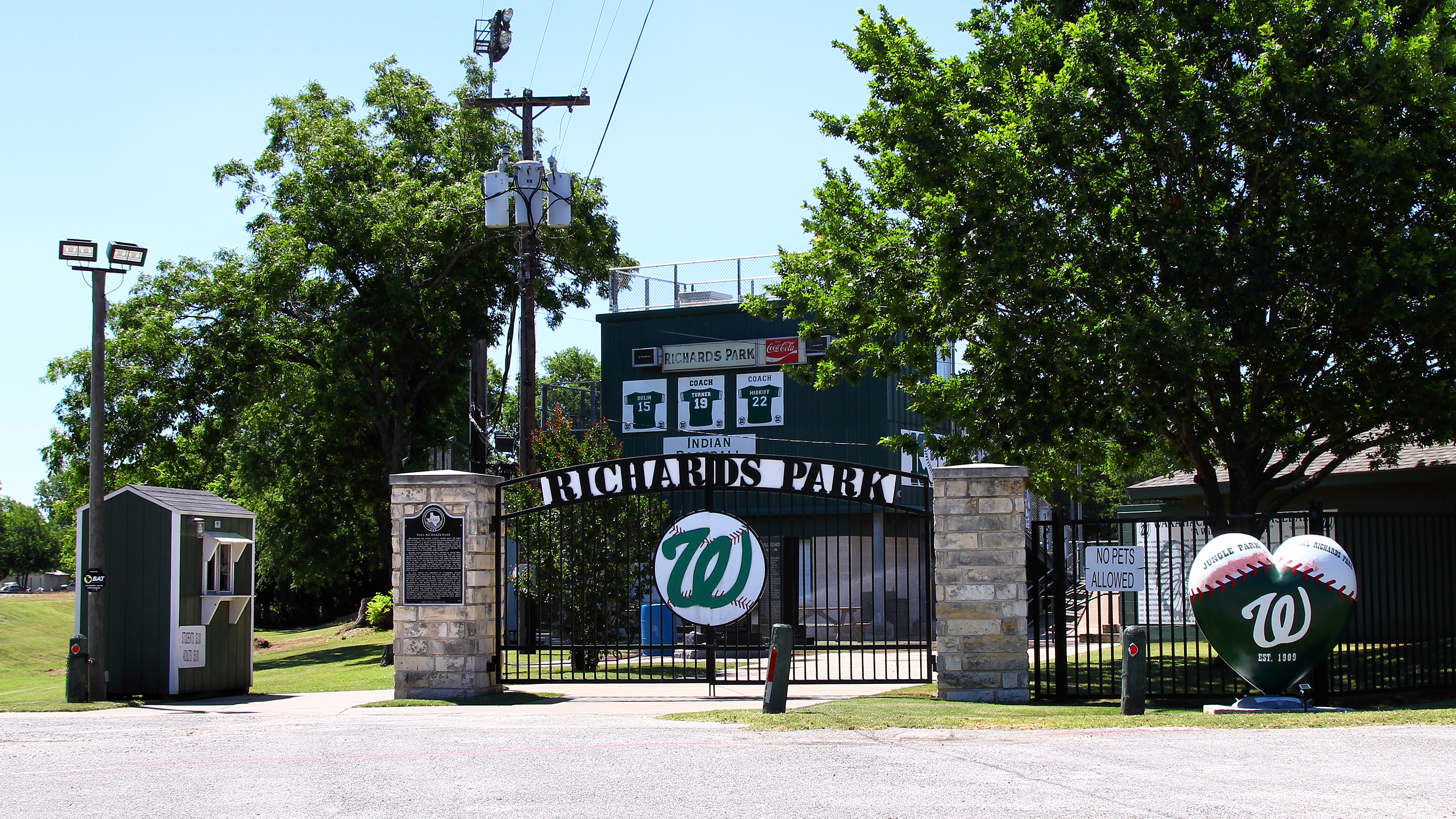 Paul Richards Park baseball field entrance in Waxahachie, Texas, United States.